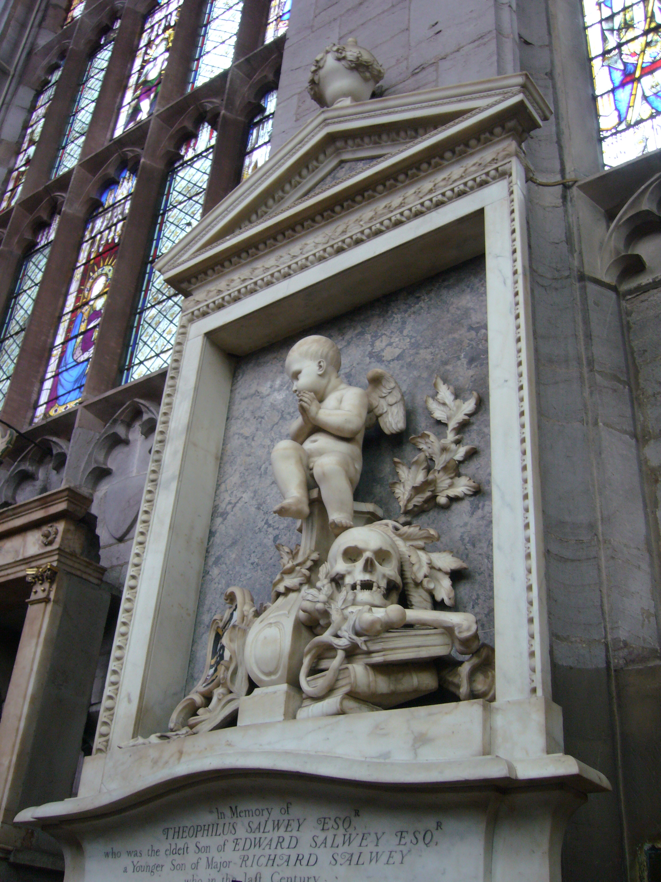 18th Century tomb showing human skull. Located at St Laurence Parish Church in Ludlow, UK.